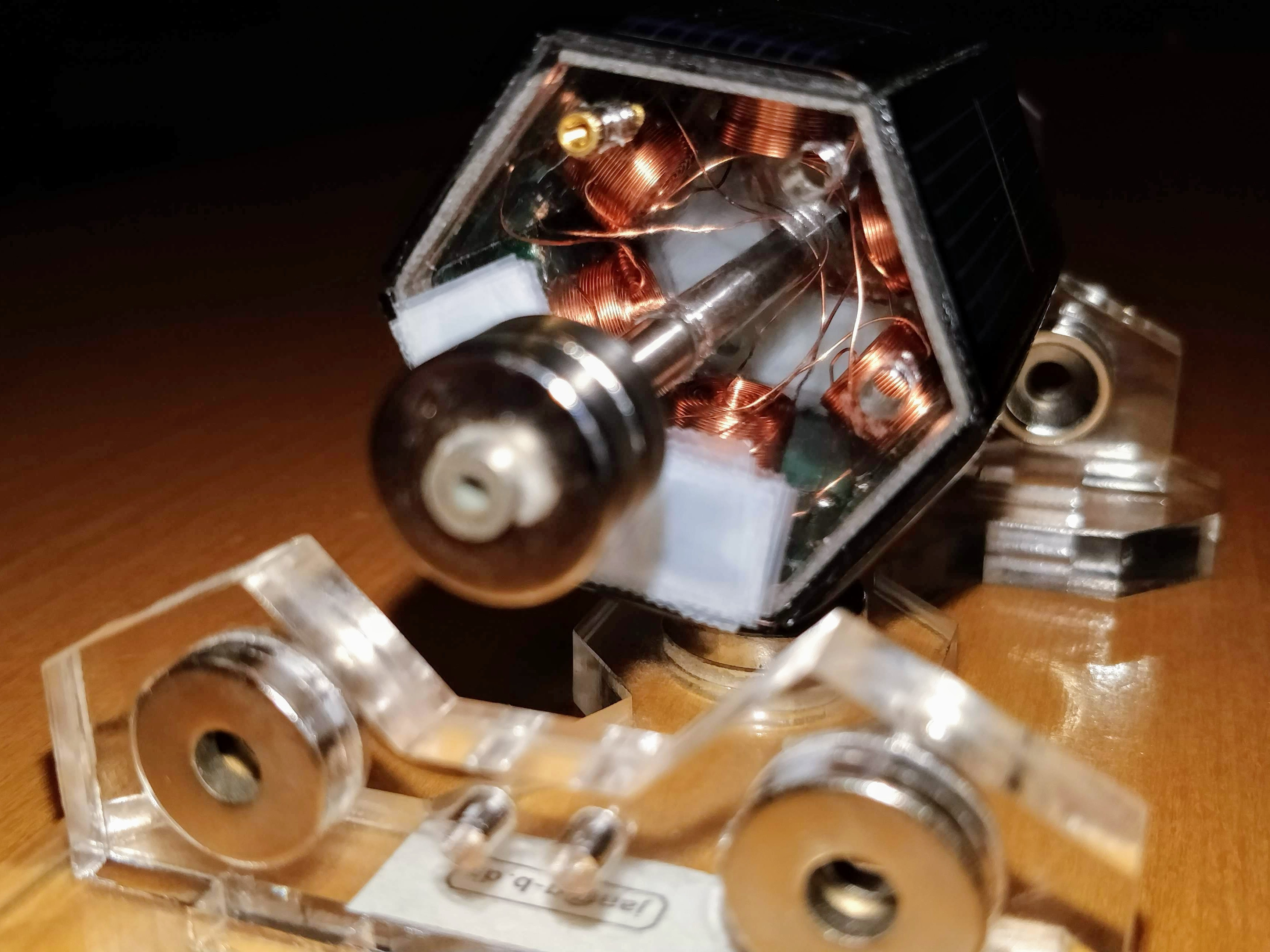 Detail of Mendocino motor showing internal coils